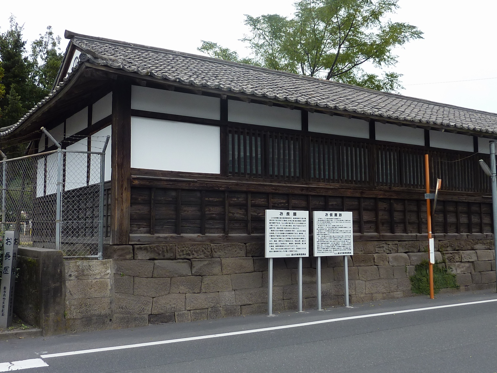 The Nagaya, was a Tarumizu Tojo Office in Edo era (Present Central Tarumizu City, Kagoshima Prefecture, Japan)